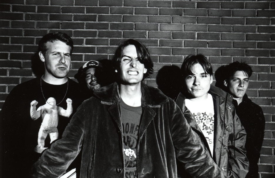 The band, Pavement, in Sibuya,Tokyo